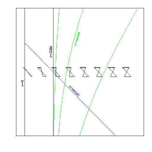 Eddington Finkelstein plot of light cones for advanced coordinates.